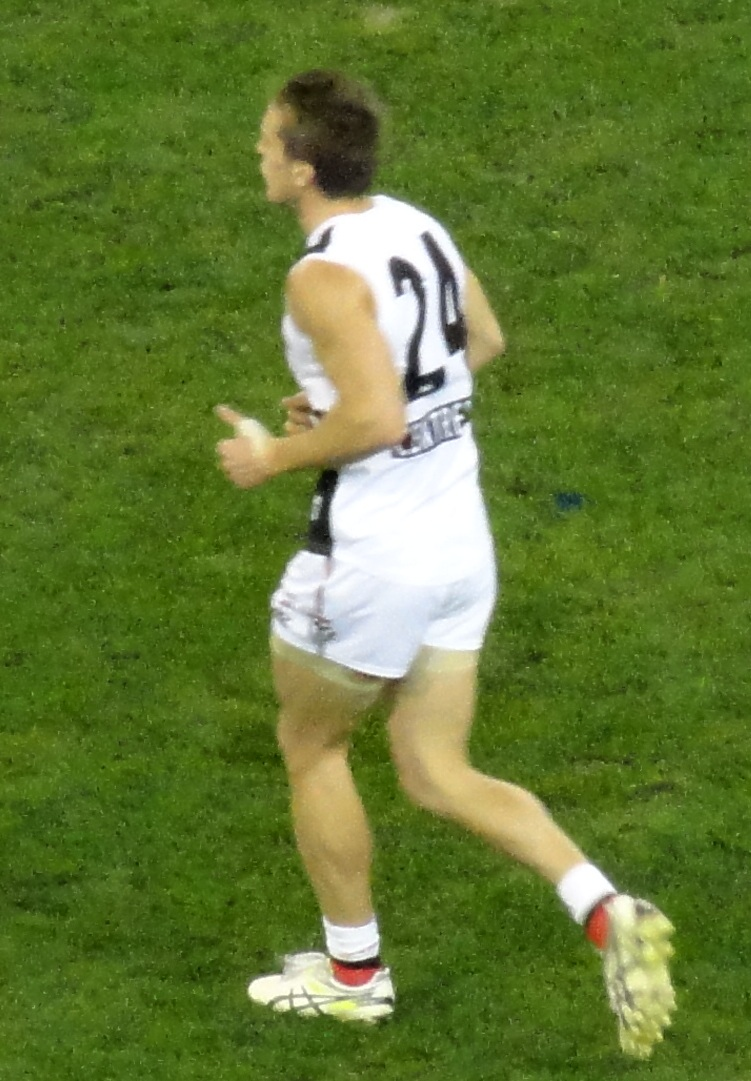 Sean Dempster in action for St Kilda, Round 24, 2011.